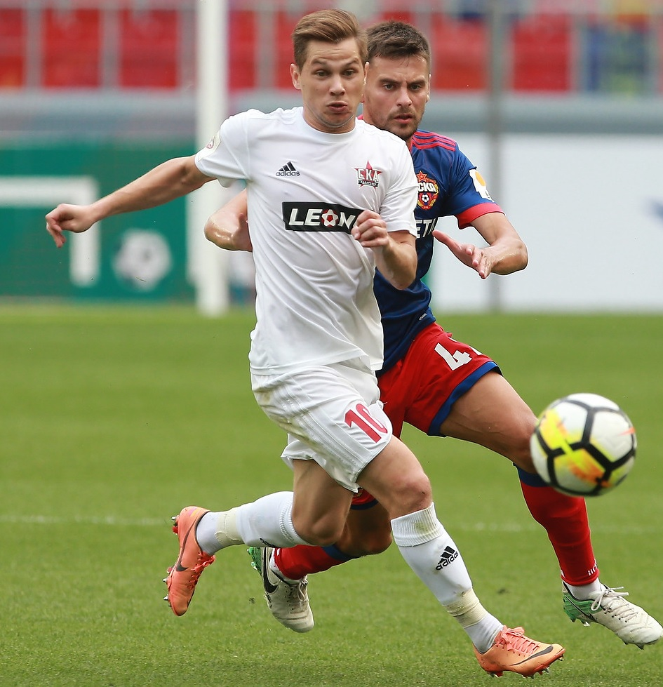 Vladislav Nikiforov with FC SKA-Khabarovsk in a game against PFC CSKA Moscow.